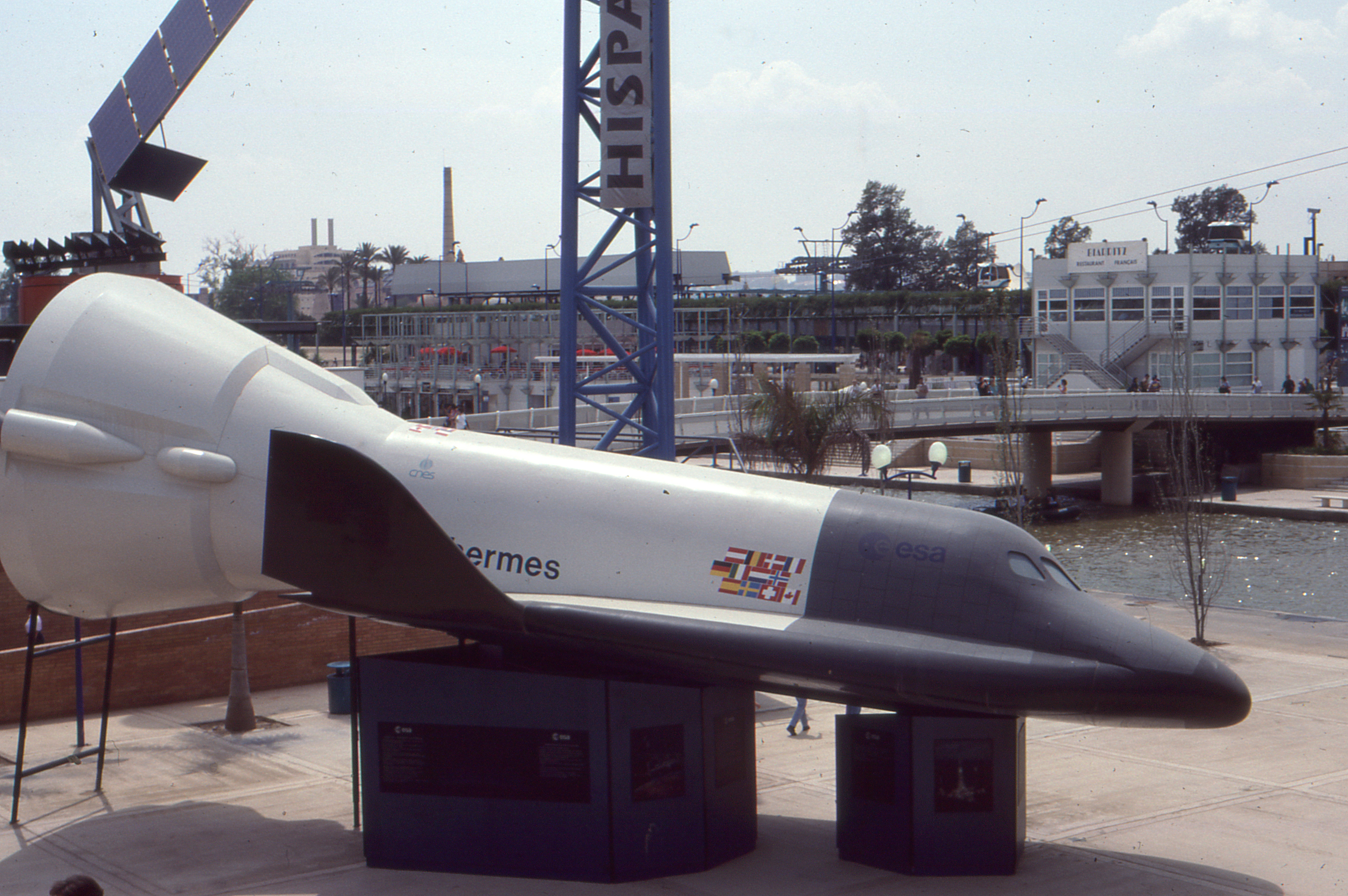 Project of space shuttle Hermes. Olympus OM10 + Kadachrome 100 ASA